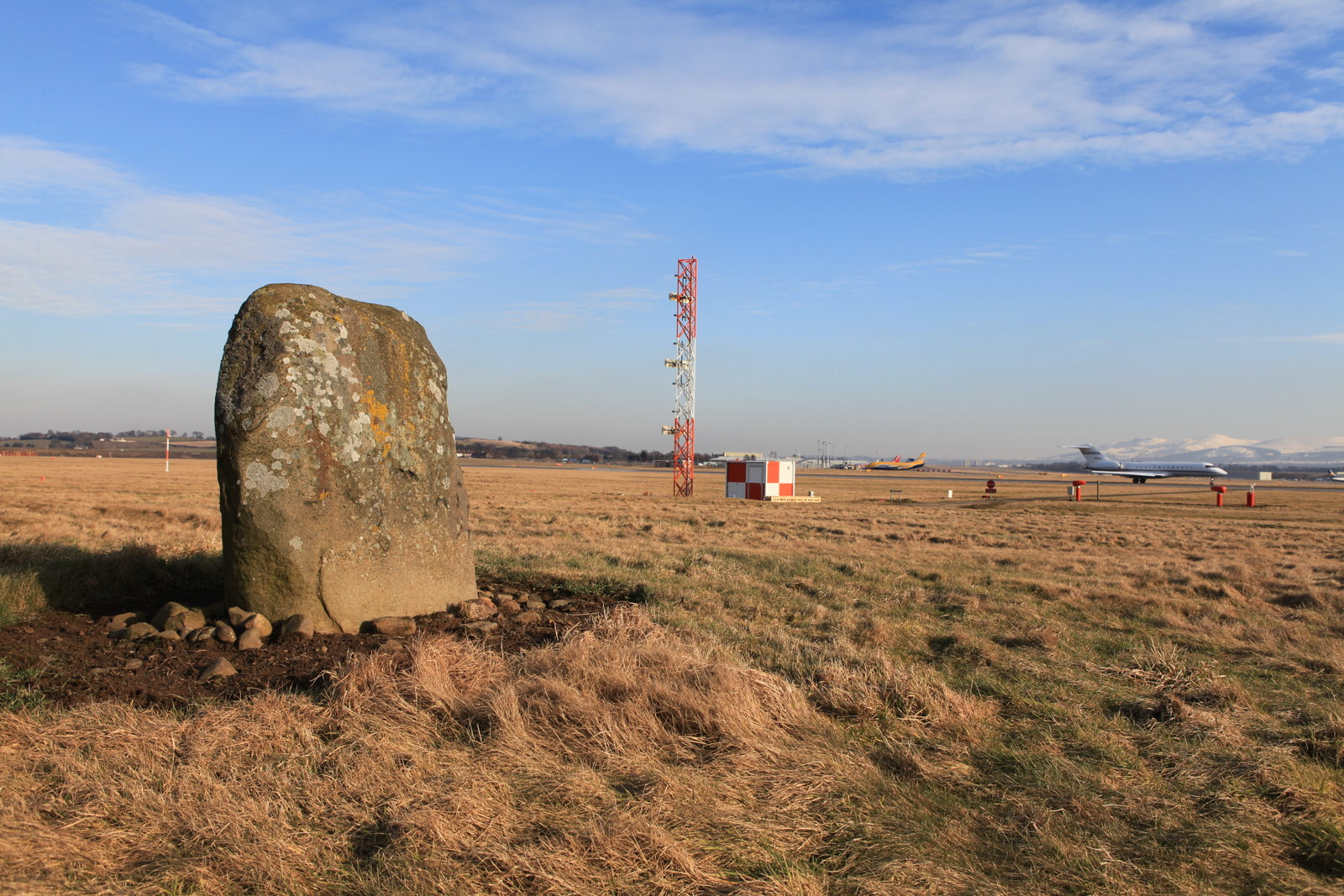 The Cat Stane at Edinburgh Airport This stone is 'airside' at Edinburgh Airport and took a lot of email and phone communication to secure a visit. A visit that required a body scan and security clearance to be granted access. I was then driven across two runways and escorted to the stone for my photographs. The Cat Stane marks the location of a 5th or 6th Century Christian Burial site which during excavation in the 1860's revealed the remains of 51 individuals.